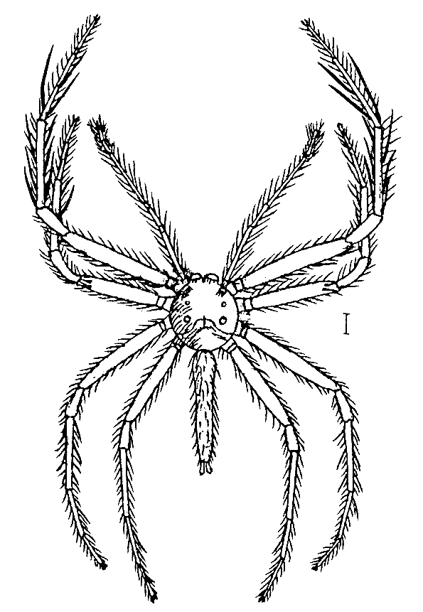 Viciria praemandibularis male from Workman, 1896. Specimen from Singapore.